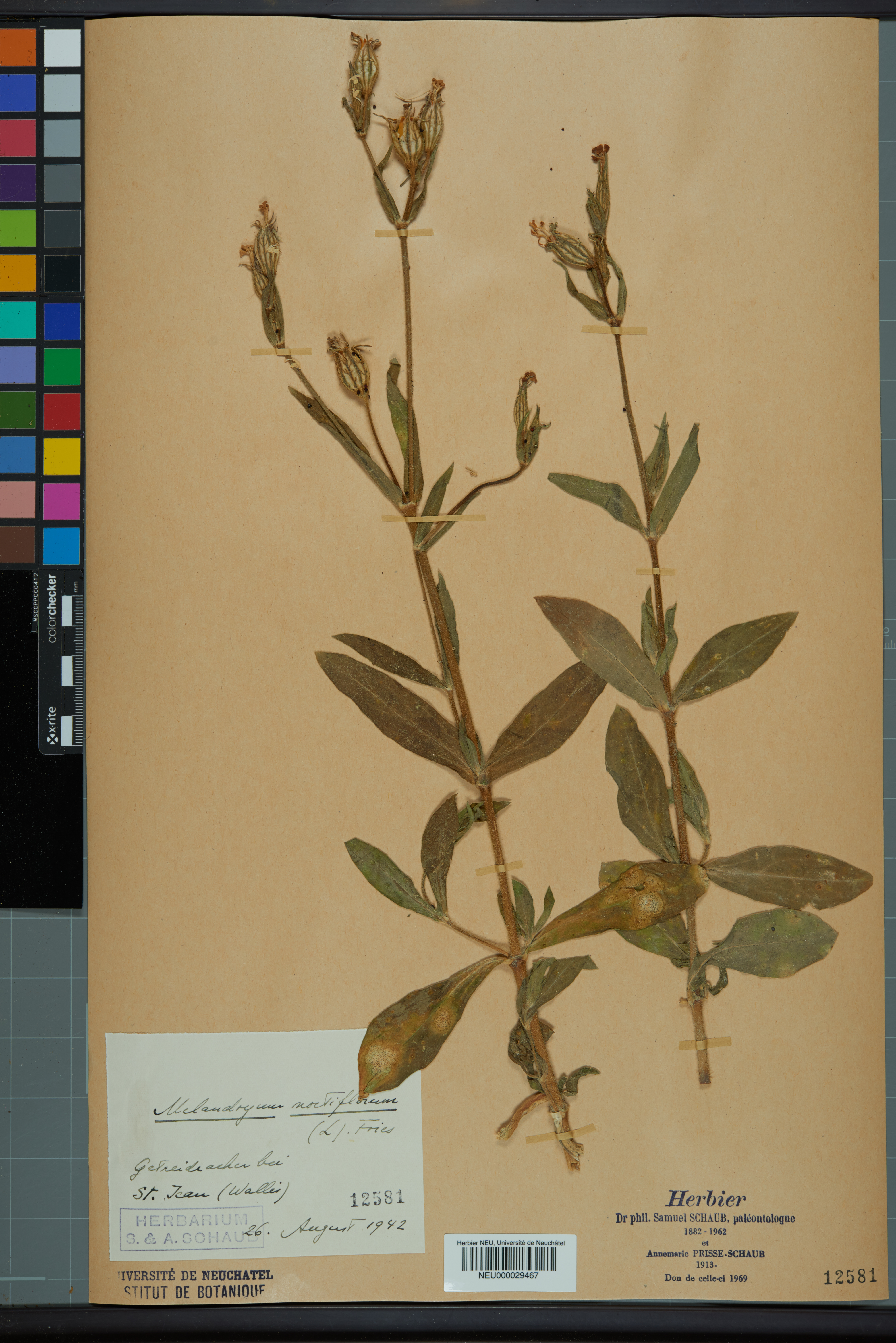 Dried pressed specimen of Silene noctiflora